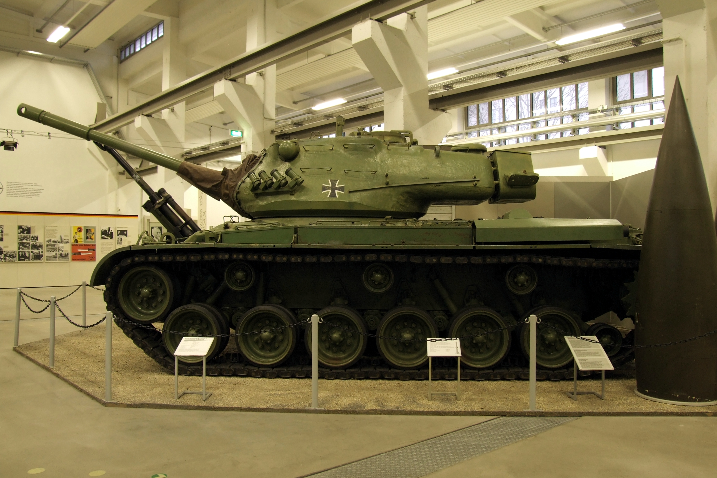 M47 Patton II, Militärhistorisches Museum der Bundeswehr, Dresden, Germany